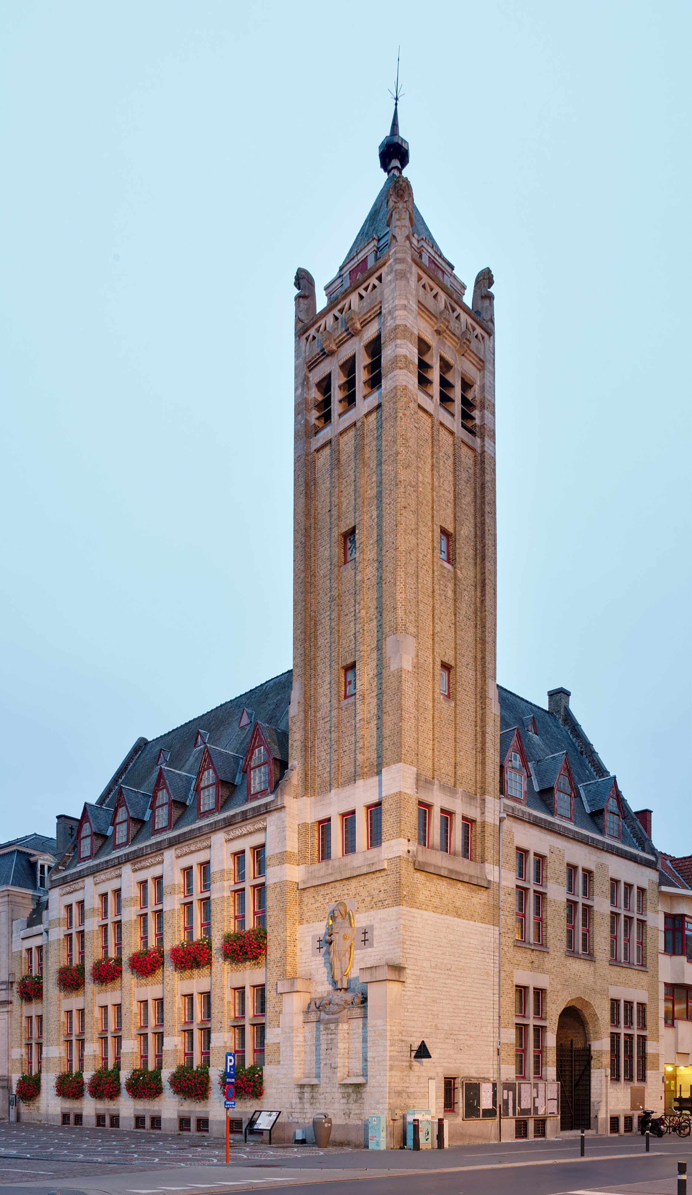 Belfry of Roeselare during civil twilight This photo of immovable heritage has been taken in the Flemish Region This place is a UNESCO World Heritage Site, listed as Belfries of Belgium and France.